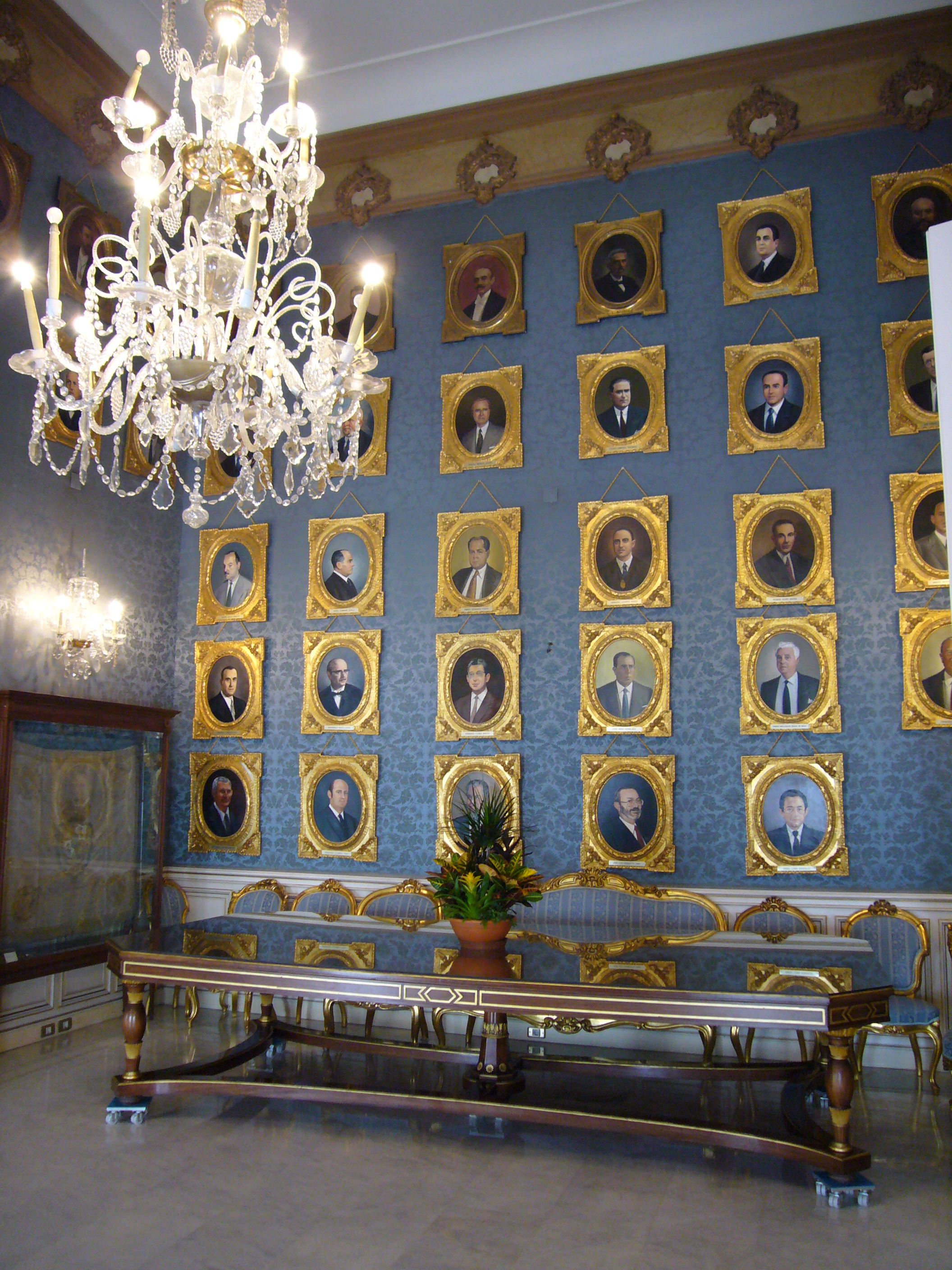 Canvas with all the mayors of the city of Alicante. Ayuntamiento de Alicante (Spain).